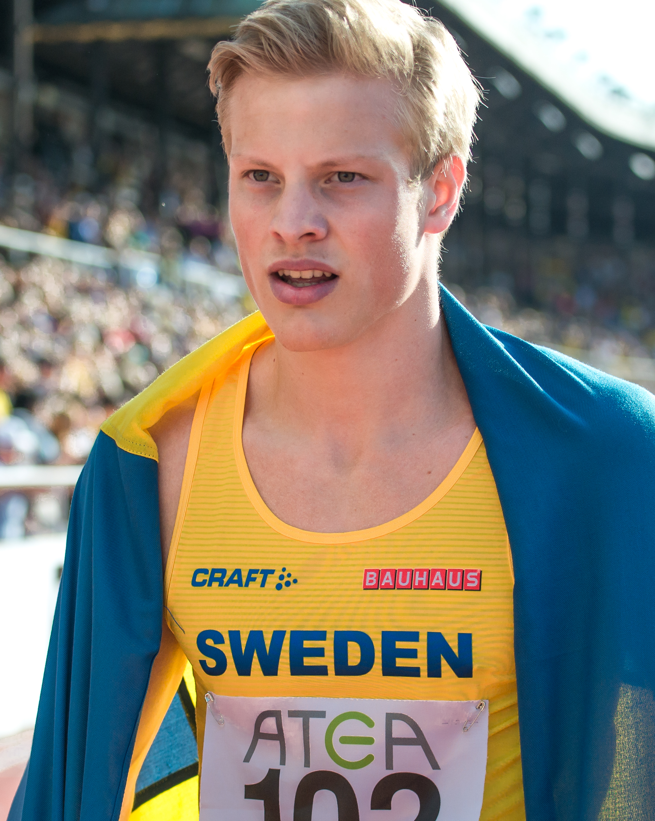 Henrik Larsson during the Finland-Sweden Athletics International at Stockholms Stadion on August 24, 2019.